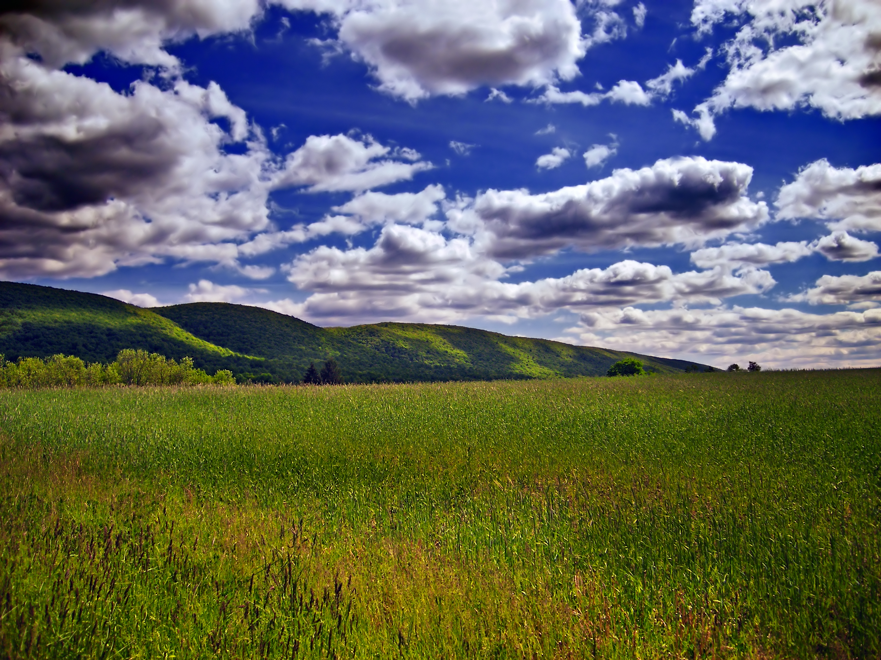 Cherry Valley, Hamilton Township, Monroe County, Pennsylvania.